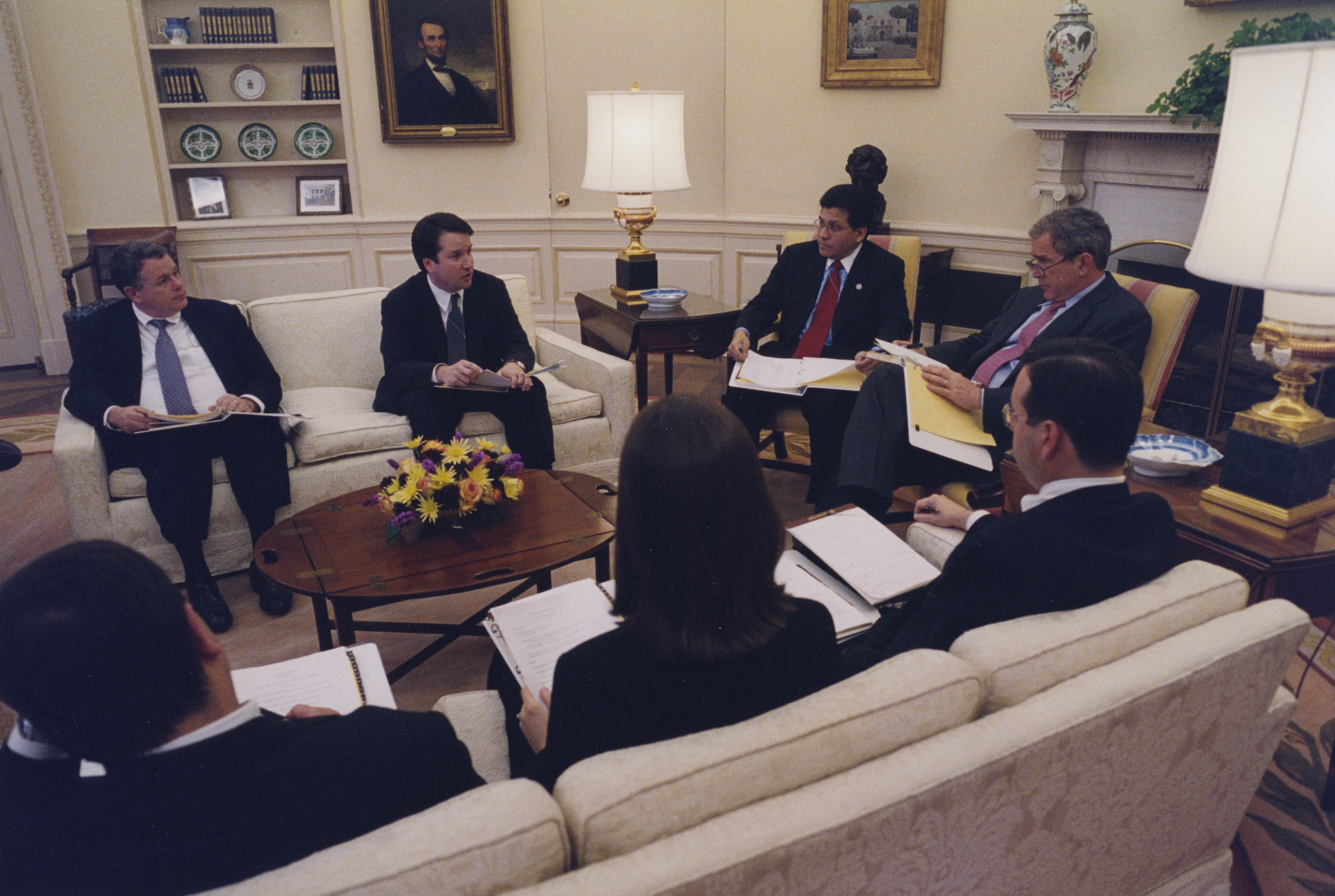 Brett Kavanaugh with President George W. Bush and other White House Staff. Part of a slide show, "A Remarkable Career in Photos: Judge Kavanaugh to Testify Before the Senate"